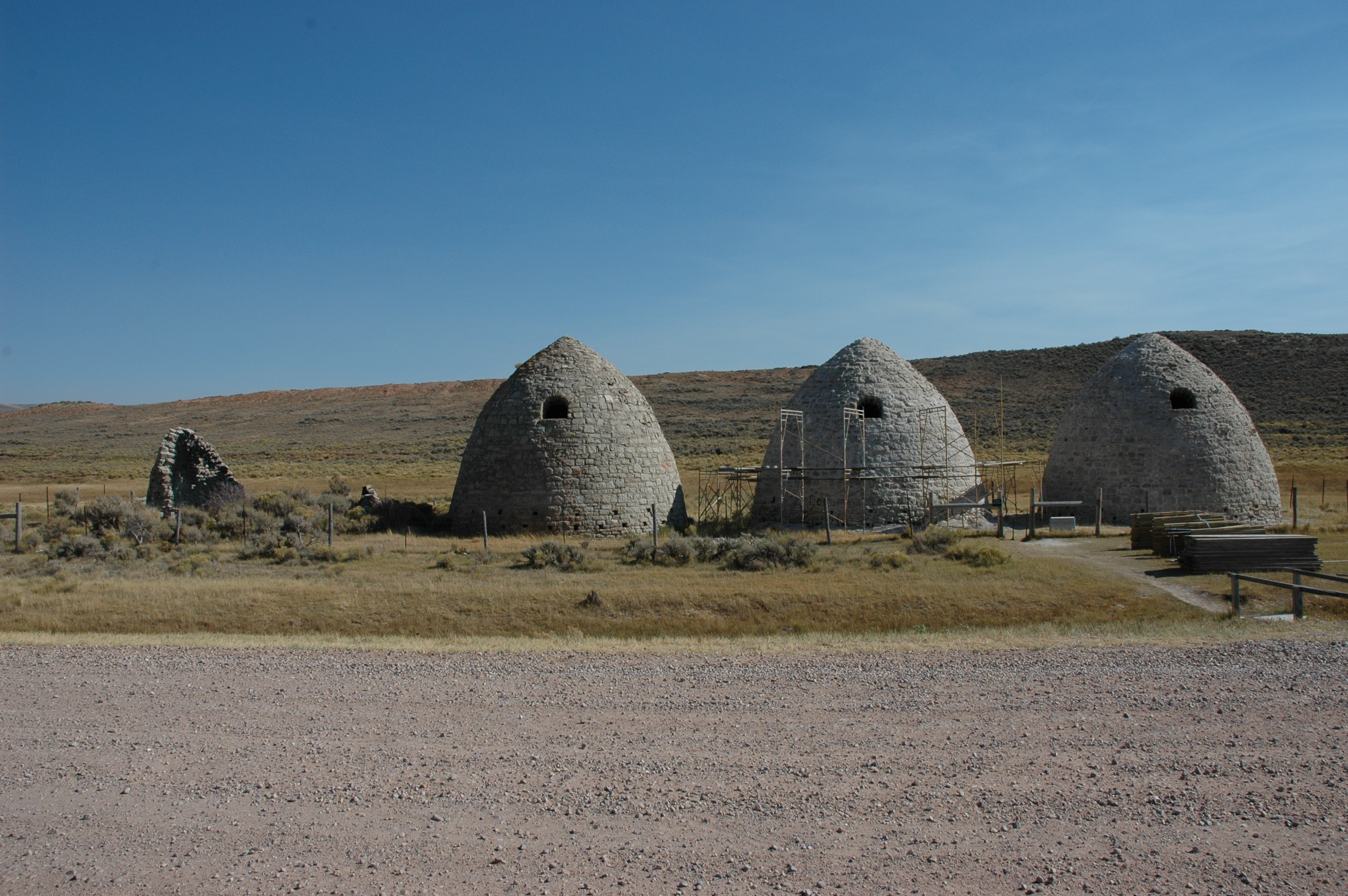 The Piedmont Charcoal Kilns, a remnant of the ghost town of Piedmont, Wyoming, United States, is listed on the National Register of Historic Places.